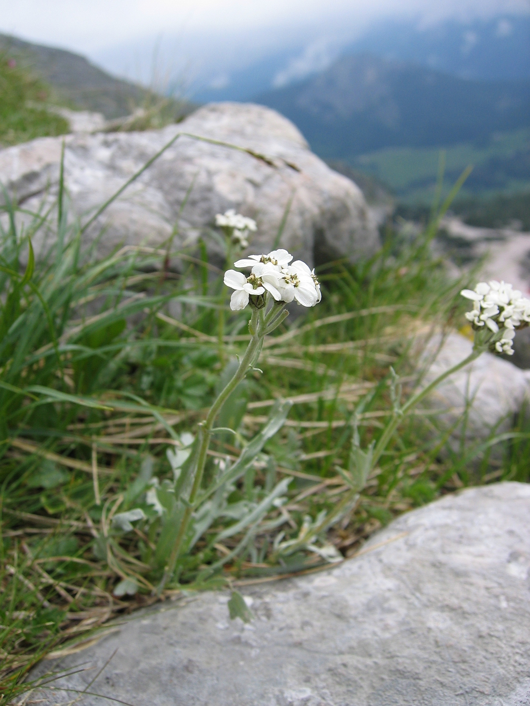 Achillea_clavennae, Widerlechnerstein, Upper Austria, Austria